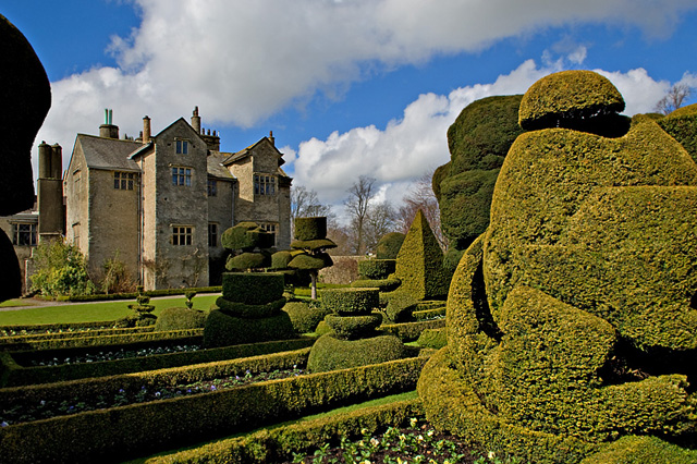 Levens Hall Levens Hall is a magnificent Elizabethan mansion built around a 13th Century pele tower, which was expanded and rebuilt towards the end of the 16th Century. It is the family home of the Bagots, and contains a collection of Jacobean furniture, fine paintings, the earliest English patchwork and many other beautiful objects.